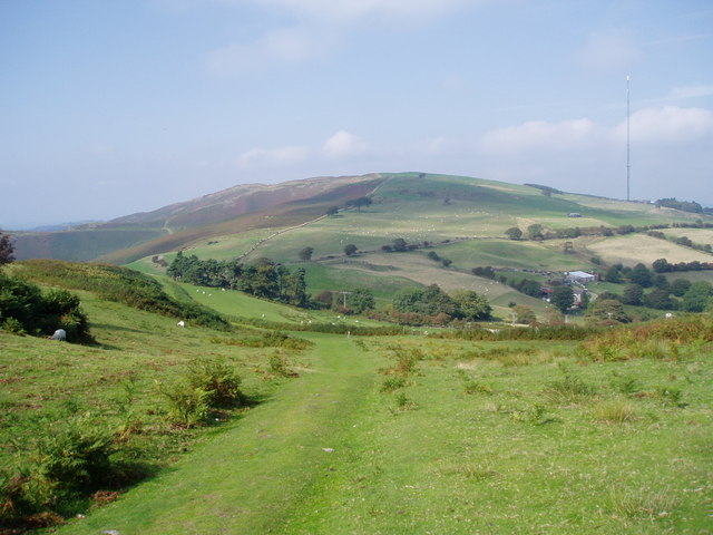 Offa's Dyke Path Looking north down the path; the hill in the distance is Moel y Parc with its television transmitter.